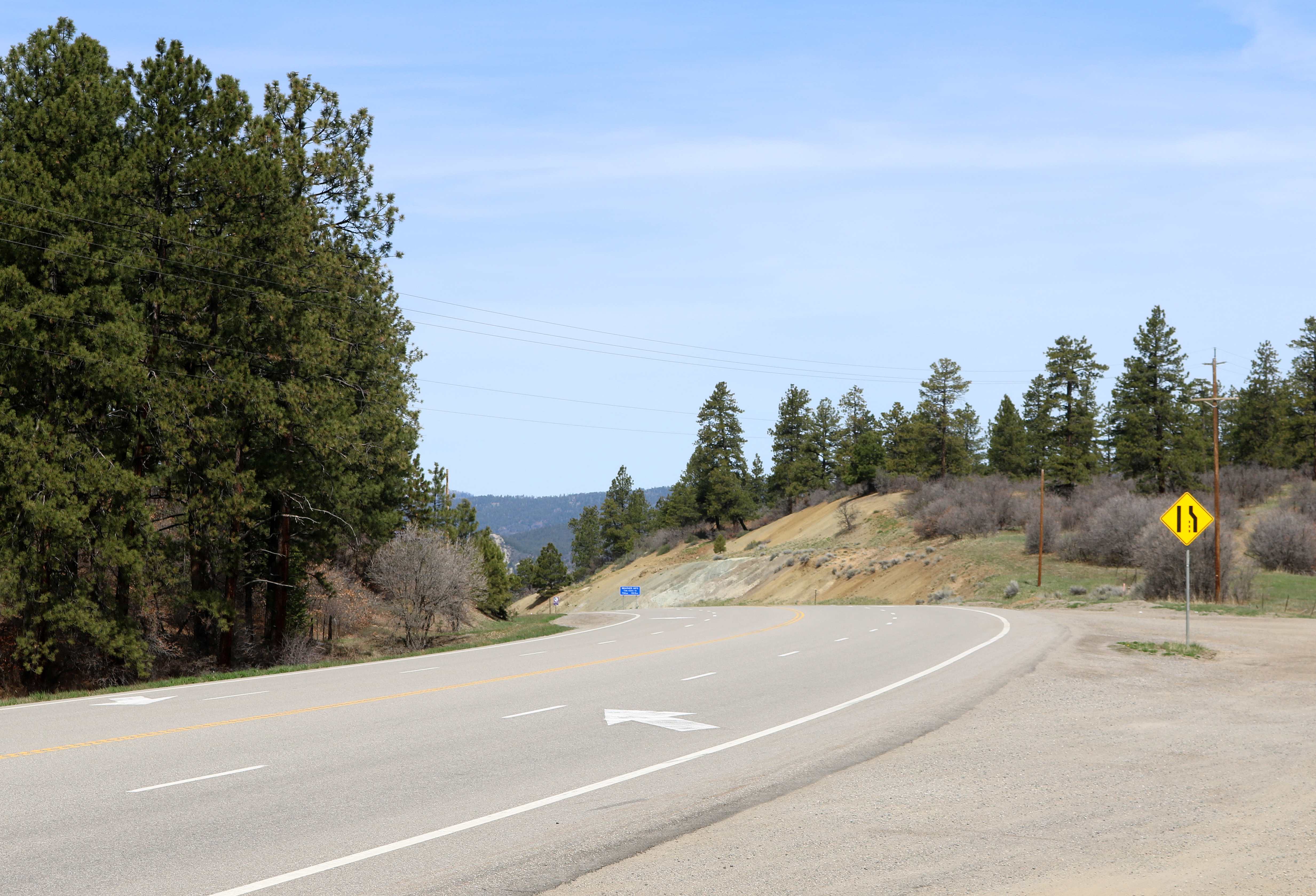 Yellowjacket Pass in Archuleta County, Colorado. The view is in the westbound direction on U.S. Highway 160. At the time the picture was taken, there was no road sign marking the pass.